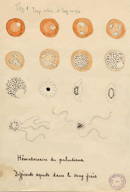 Illustration drawn by Laveran of various stages of malaria parasites as seen on fresh blood. Dark pigment granules are present in most stages. The bottom row shows an exflagellating male gametocyte, which produces ".filiform elements which move with great vivacity."